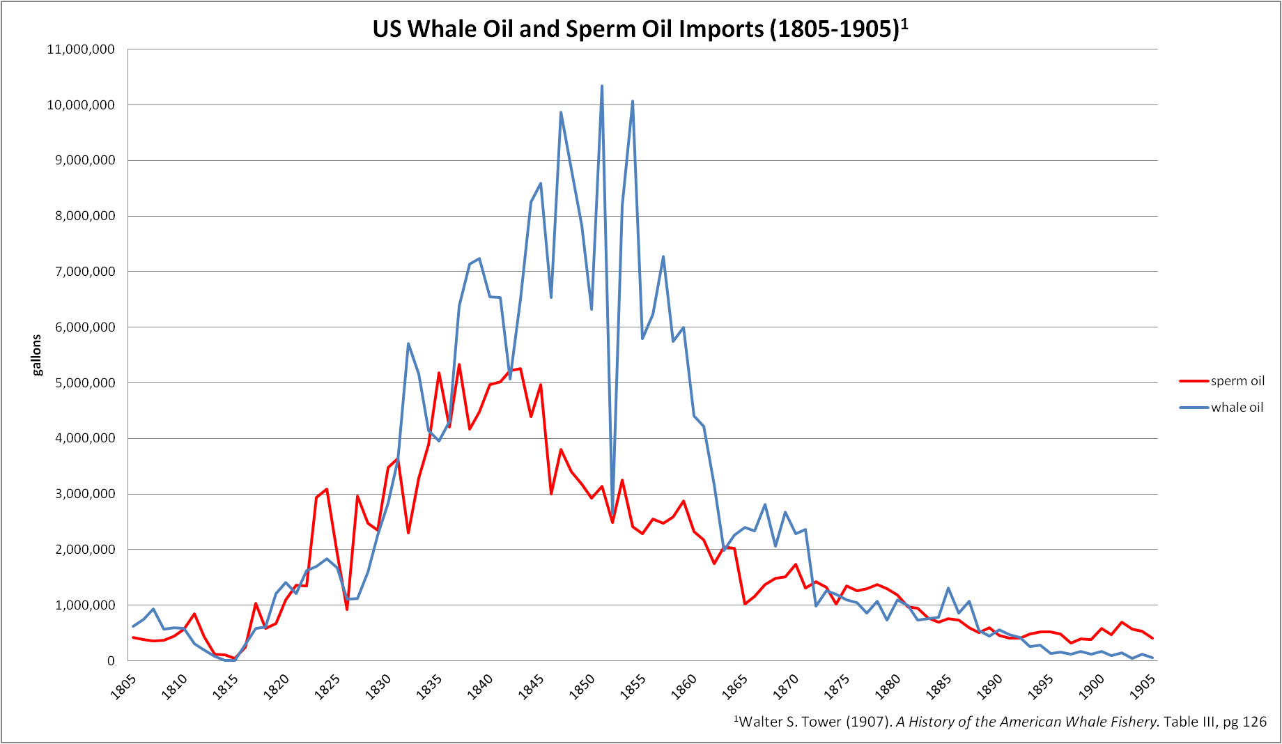 US Imports of Whale Oil and Sperm Oil. Taken from Table III on page 126 of A History of the American Whale Fishery by Walter S. Tower ((